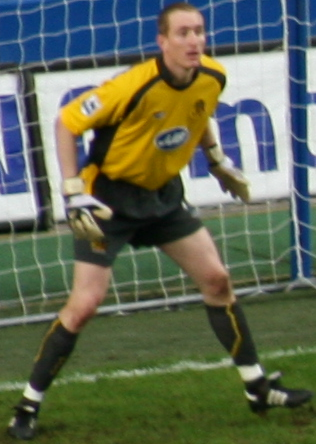 Chris Kirkland. Image cropped from original at flickr.